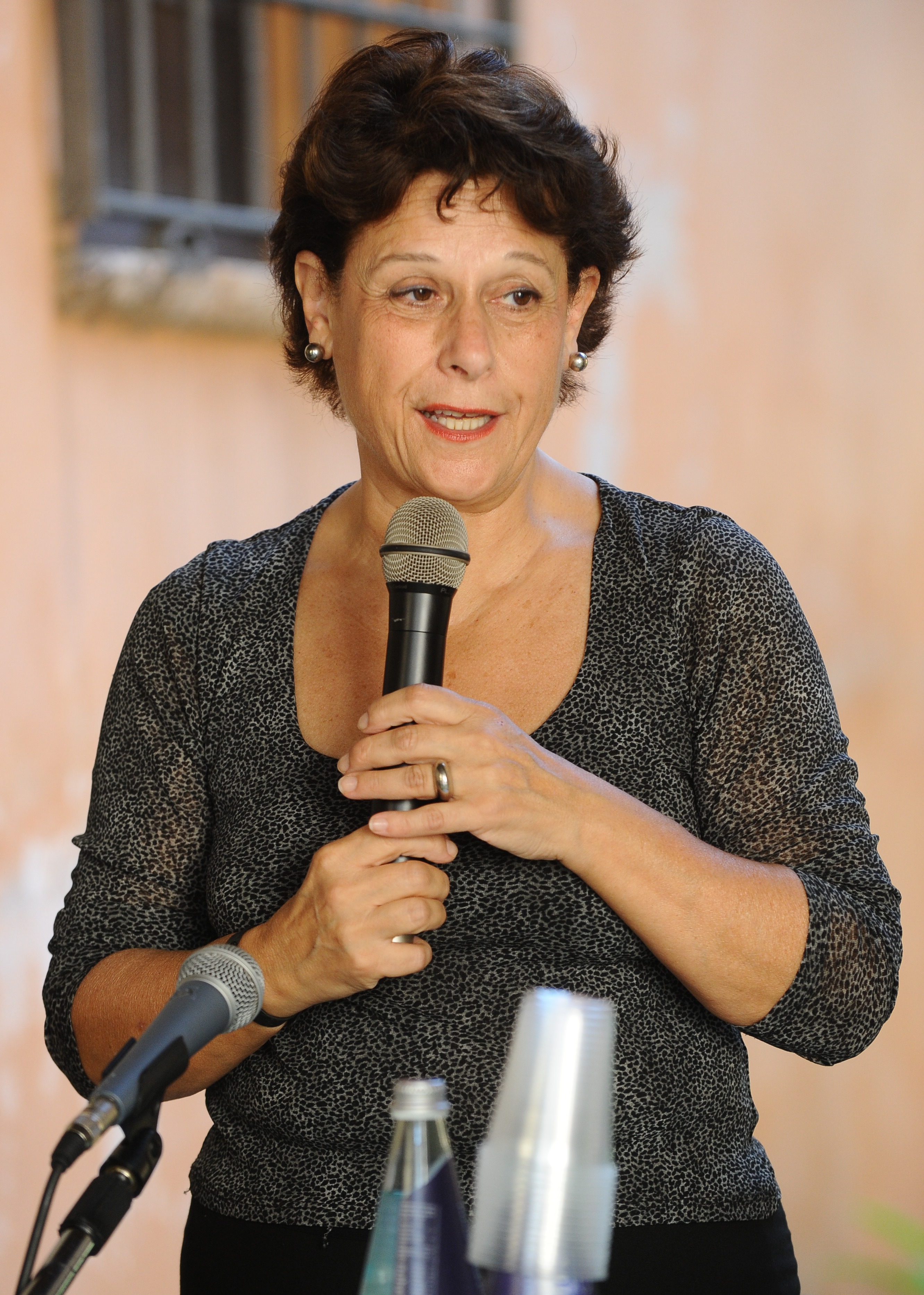 Simonetta Agnello Hornby at Festivaletteratura 2012 in Mantua.